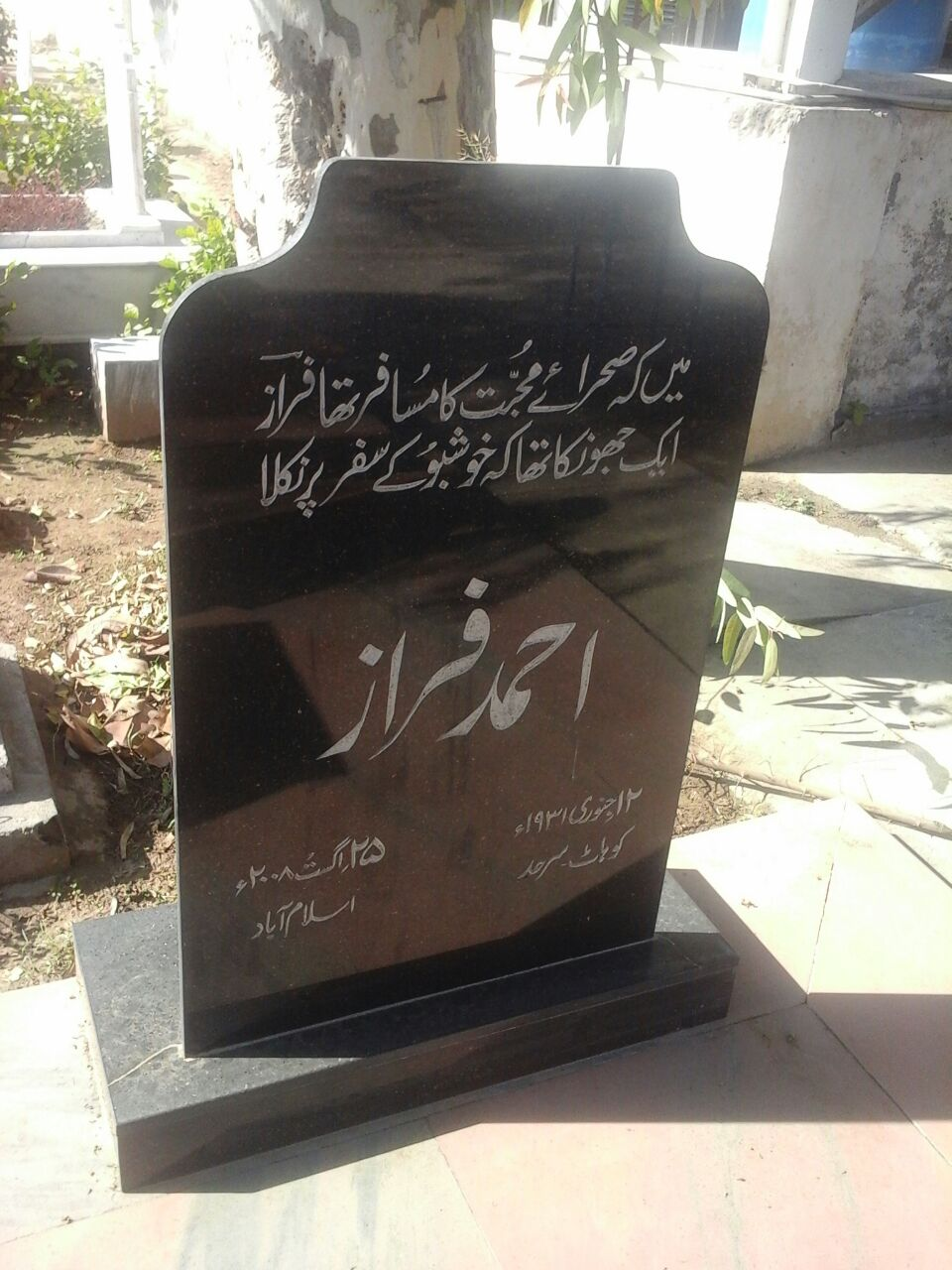 J'étais un Voyageur dans le Desert d'amour. Comme un souffle de vent, qui est parti en voyage de parfum